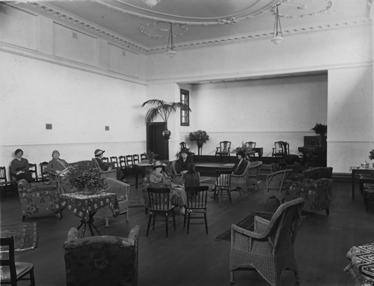 This is a photograph of the Karrakatta Club reading rooms in the 1920s.